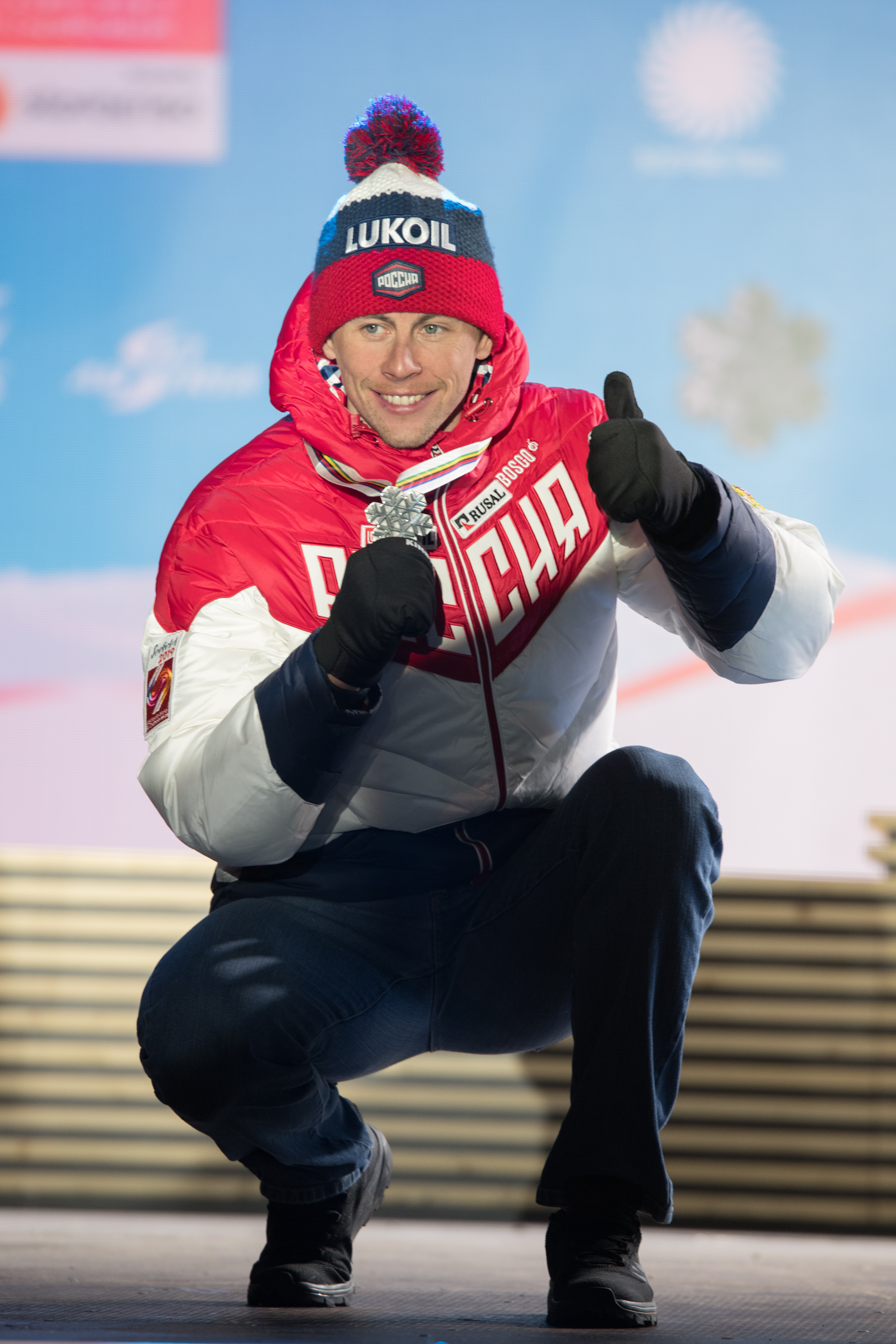 FIS Nordic World Ski Championships Seefeld 2019 - Medal Ceremony at the Medal Plaza. Picture shows Alexander Bessmertnykh (RUS).